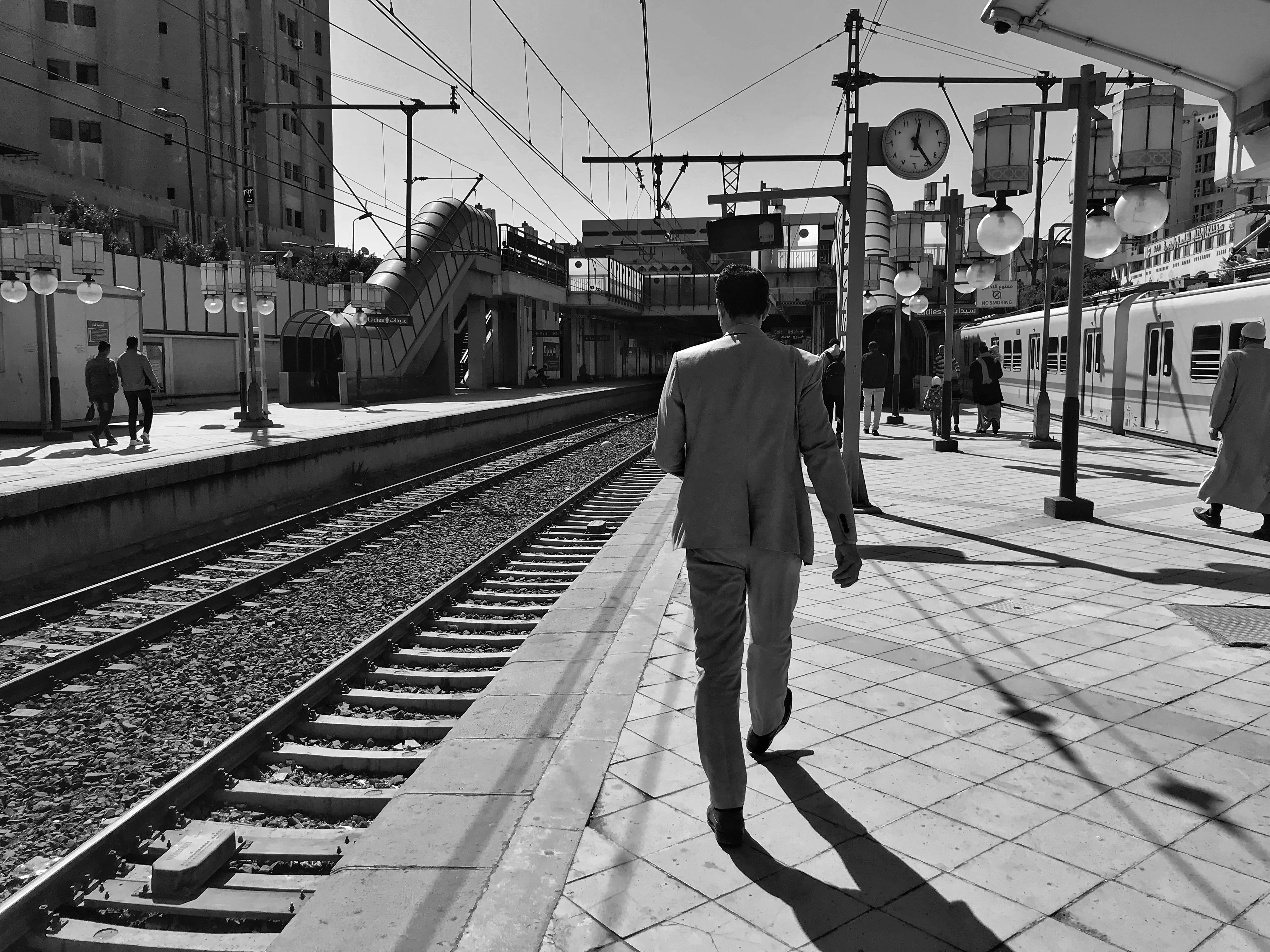 A man walks along the train platform at El Malek El Saleh Station, in Cairo Egypt. This is an image with the theme "Africa on the Move or Transport" from: Egypt